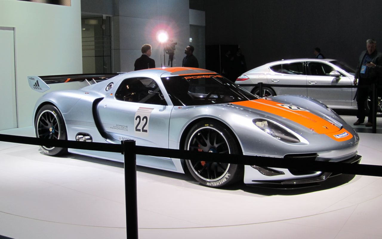 Silver Porsche 918 RSR at the "2011 North American International Auto Show in Detroit, Michigan ".Porsche 918 RSR Concept